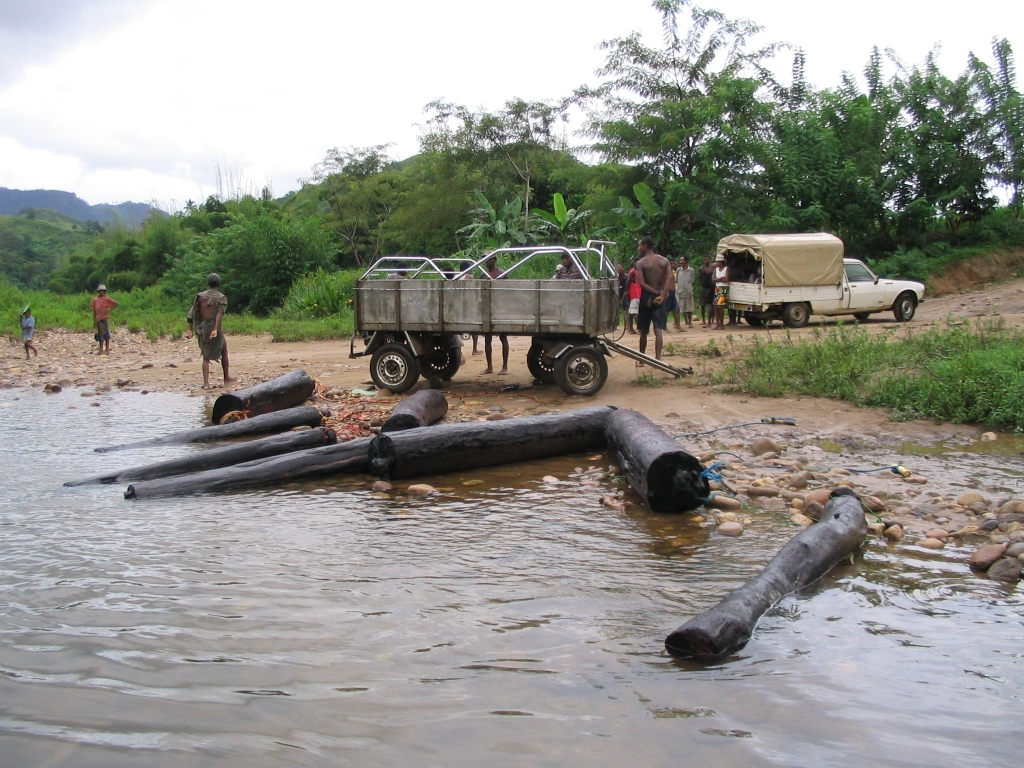 Rosewood being removed illegally from Marojejy National Park, Madagascar